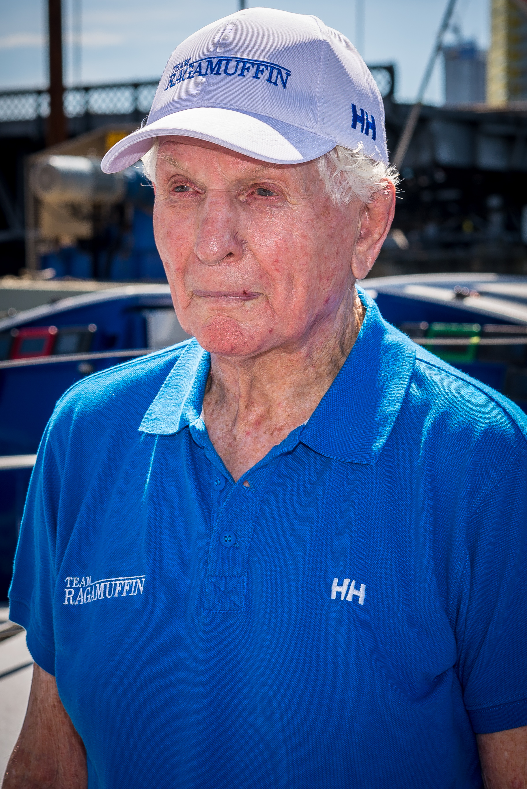 Owner and skipper, Syd Fischer christens his new super maxi-yacht Ragamuffin 100 in 2014